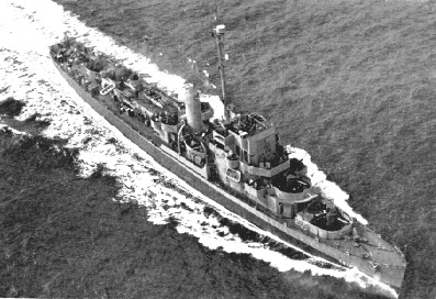 The U.S. Navy destroyer escort USS Weber (DE-675) underway in September 1943 before her conversion to a high speed transport.